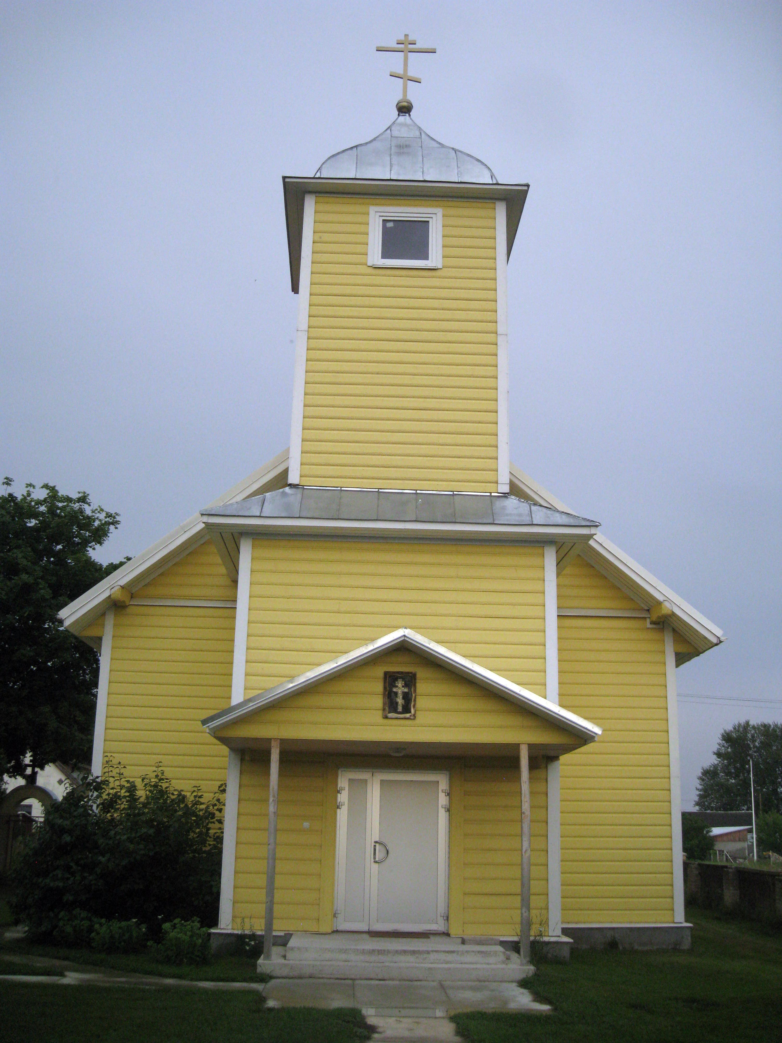 Kolkja Old-Believers' Church in Kolkja, Peipsiääre, Estonia